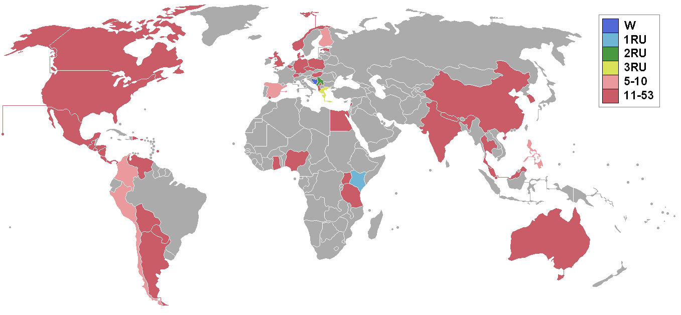 Miss Earth 2002 Map